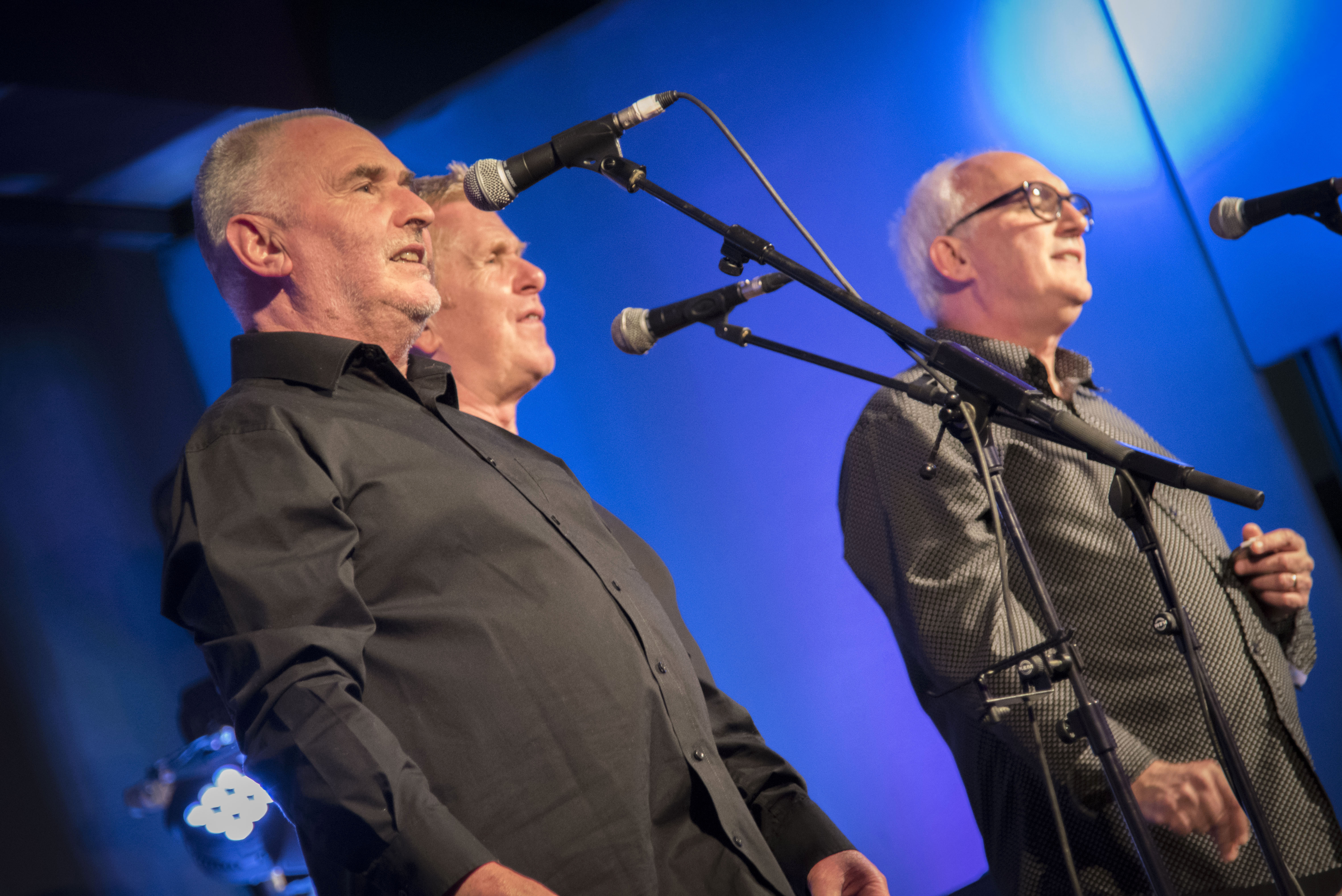 Costa del Folk, Benalmadena 2015